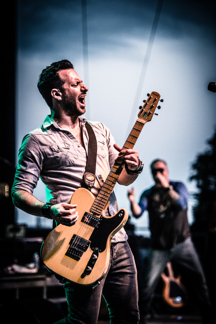 Sean Hurwitz performs with Smash Mouth. Photo by John Lill